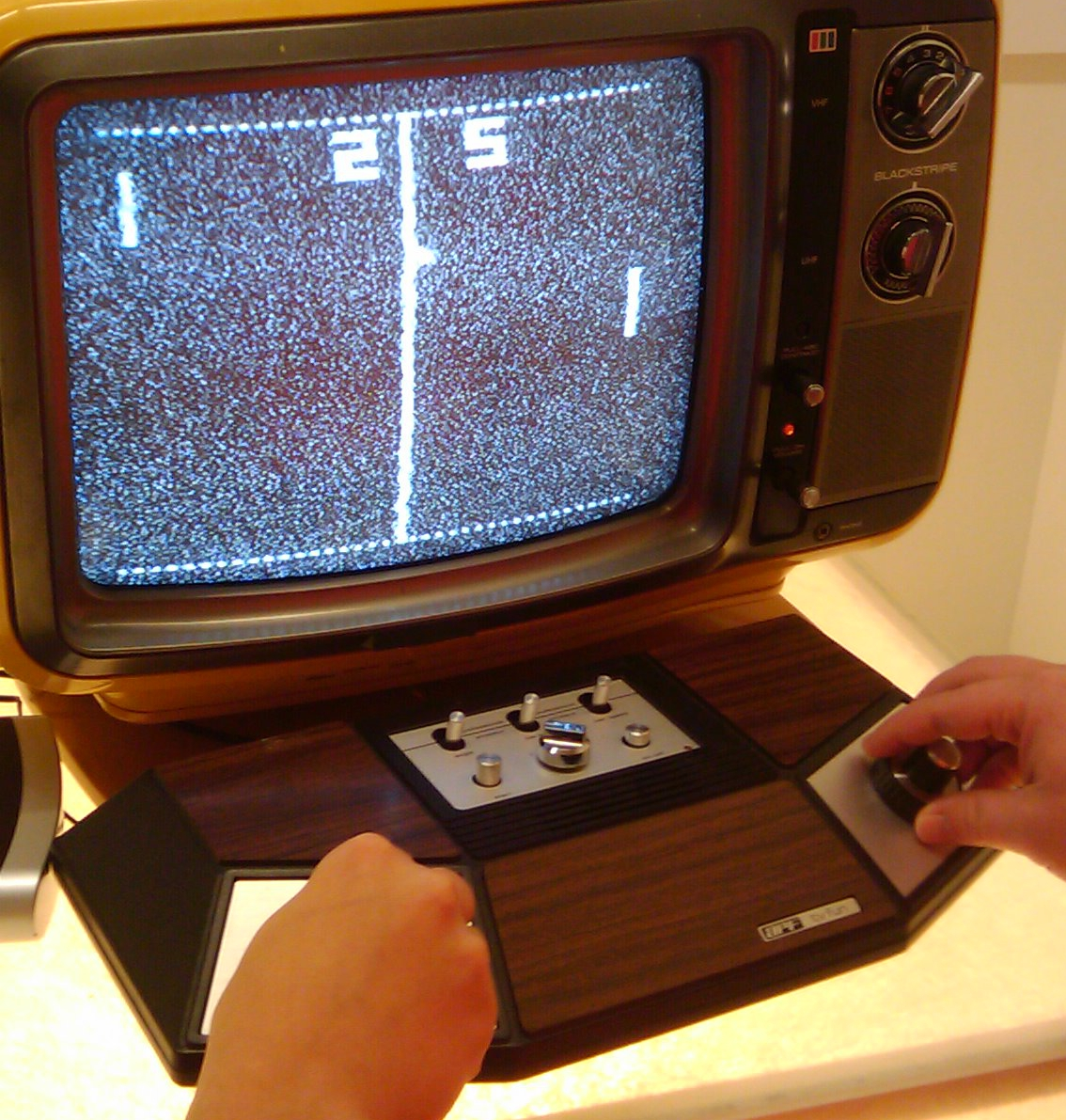 APF TV Fun pong console. Model 401 with two paddle in the body of the console Camera: HTC T-Mobile G1 License on Flickr (2011-02-05): CC-BY-SA-2.0 Flickr tags: mobility